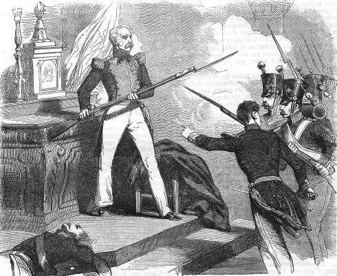 Death of General Józef Sowiński during Russian assault on Warsaw in 1831